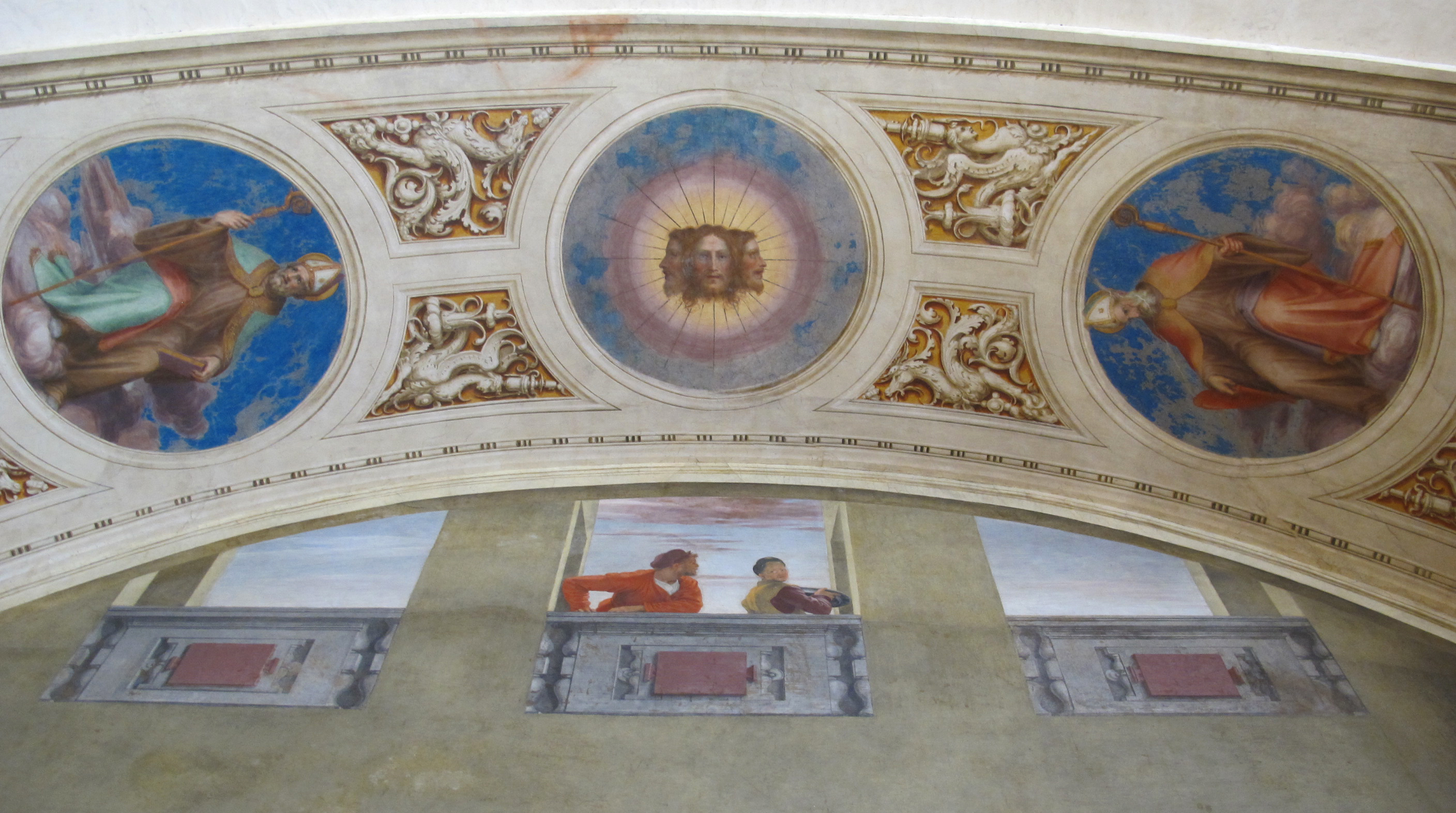 San Salvi museum, Andrea Del sarto Last Supper fresco, in Florence, Italy